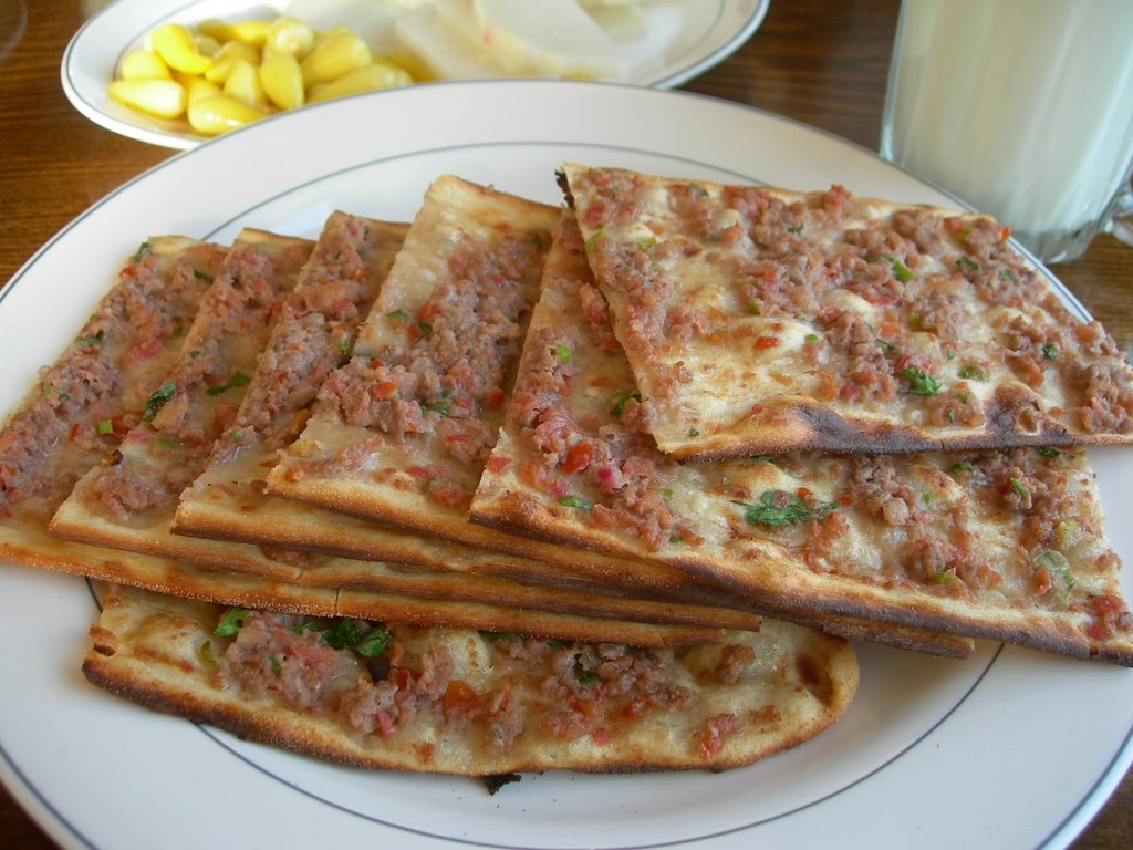 Etliekmek, Turkish food.